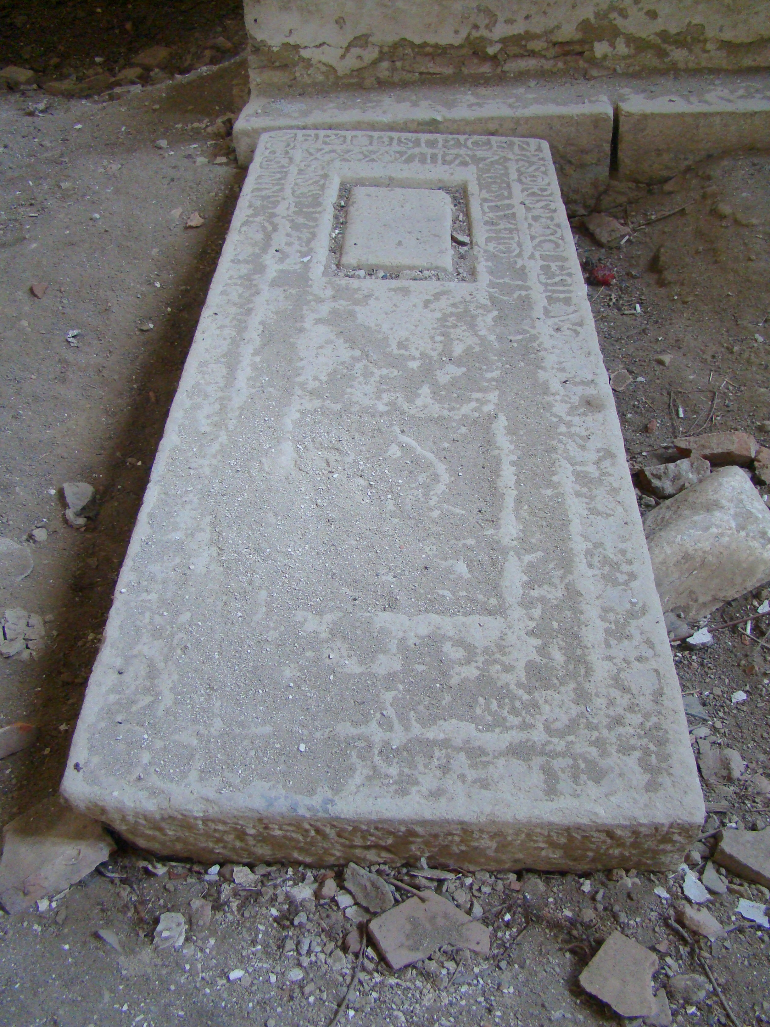 Lutheran church in Vermeș, Bistrița-Năsăud county, Romania